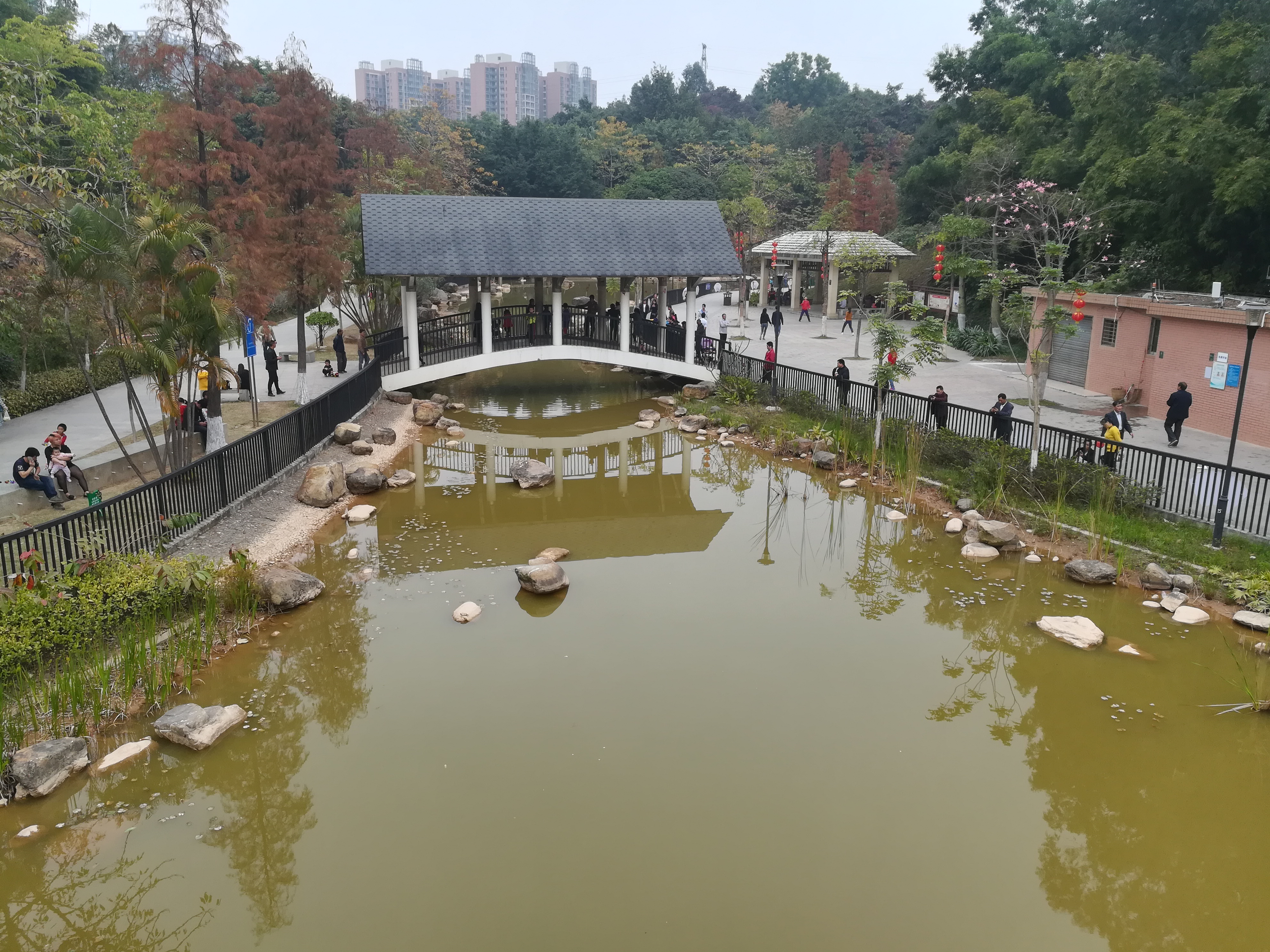 The Linbo Cloak Bridge in Guanlan Renmin Park, Longhua District of Shenzhen, Guangdong, China.